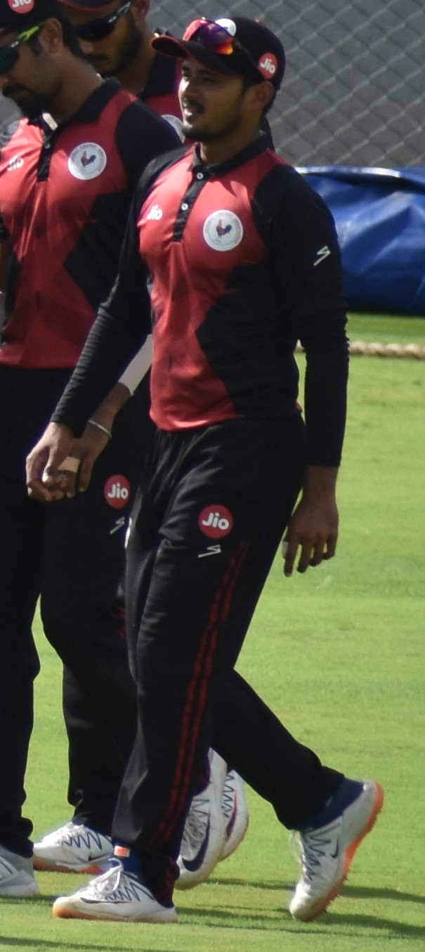 Indian cricketer Priyank Panchal during the 2019-20 Vijay Hazare Trophy in Rajanukunte, Bangalore.